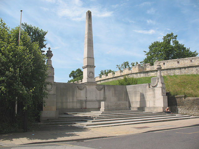 North East Railway war memorial, York. The memorial is set just inside the city walls, not far from the railway station, and commemorates the employees of the NER who gave their lives in the Great War (World War 1). See 1413594 for historical detail.